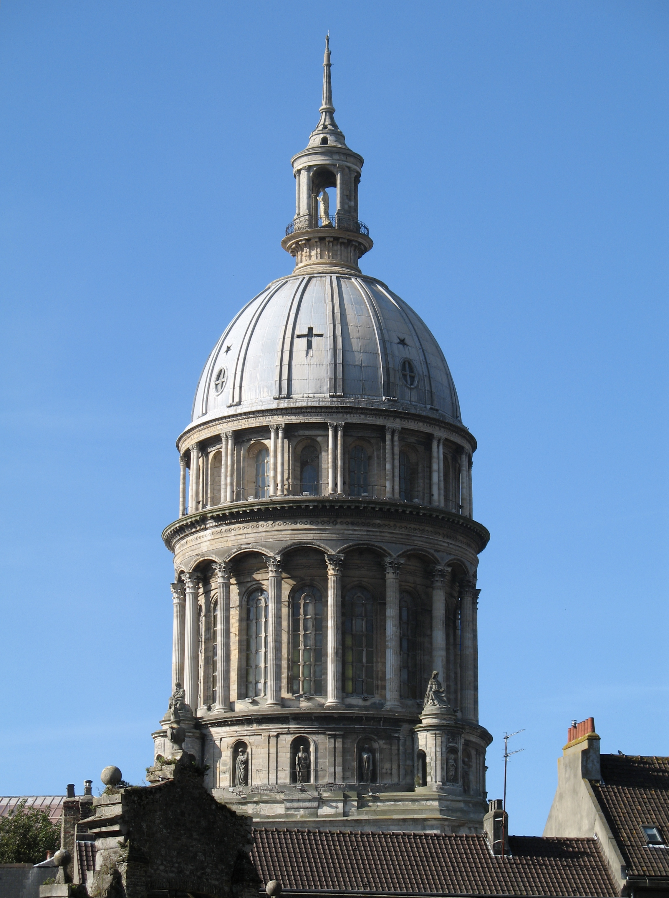 Boulogne-sur-Mer (département du Pas-de-Calais, France): the dome of the Notre Dame basilica